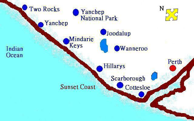 Location of Sunset Coast, Perth, Western Australia. Created by user alfeewusy source from Sunset Coast Official Website